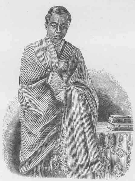 Andriambelo (LMS, 1869, p.22)